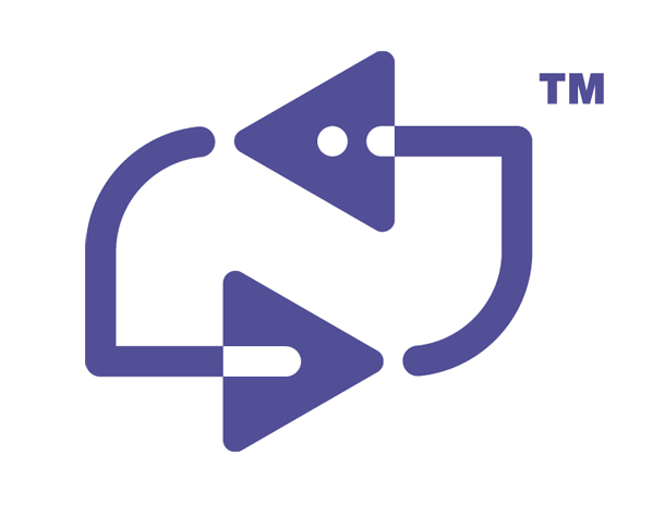 Certification mark given to AVnu compliant AVB products.